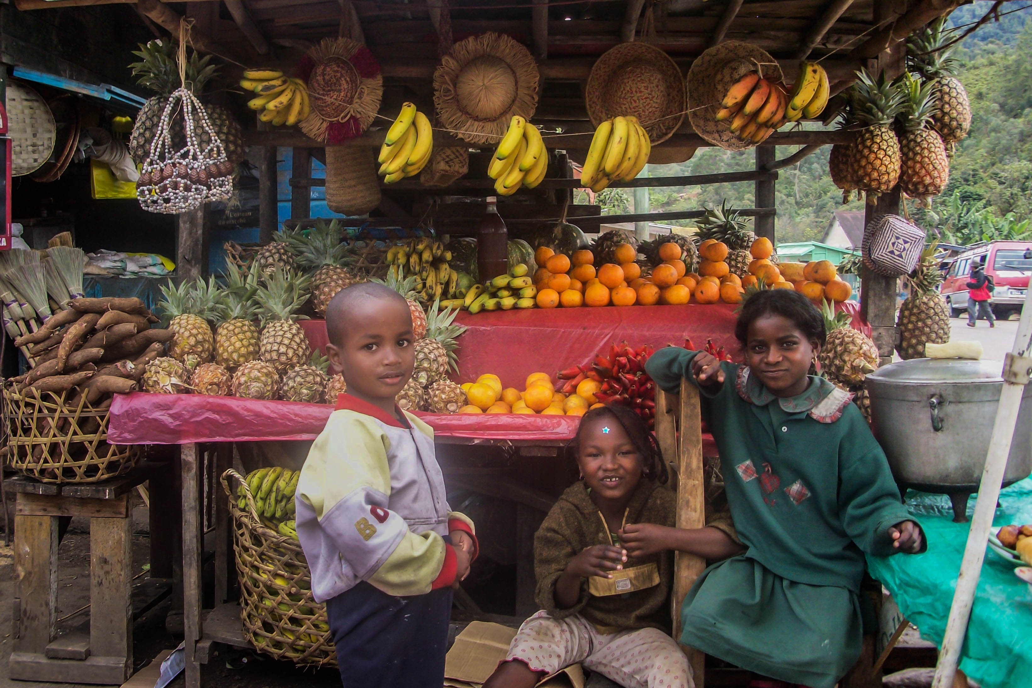 This is an image of Cultural Fashion or Adornment from Madagascar